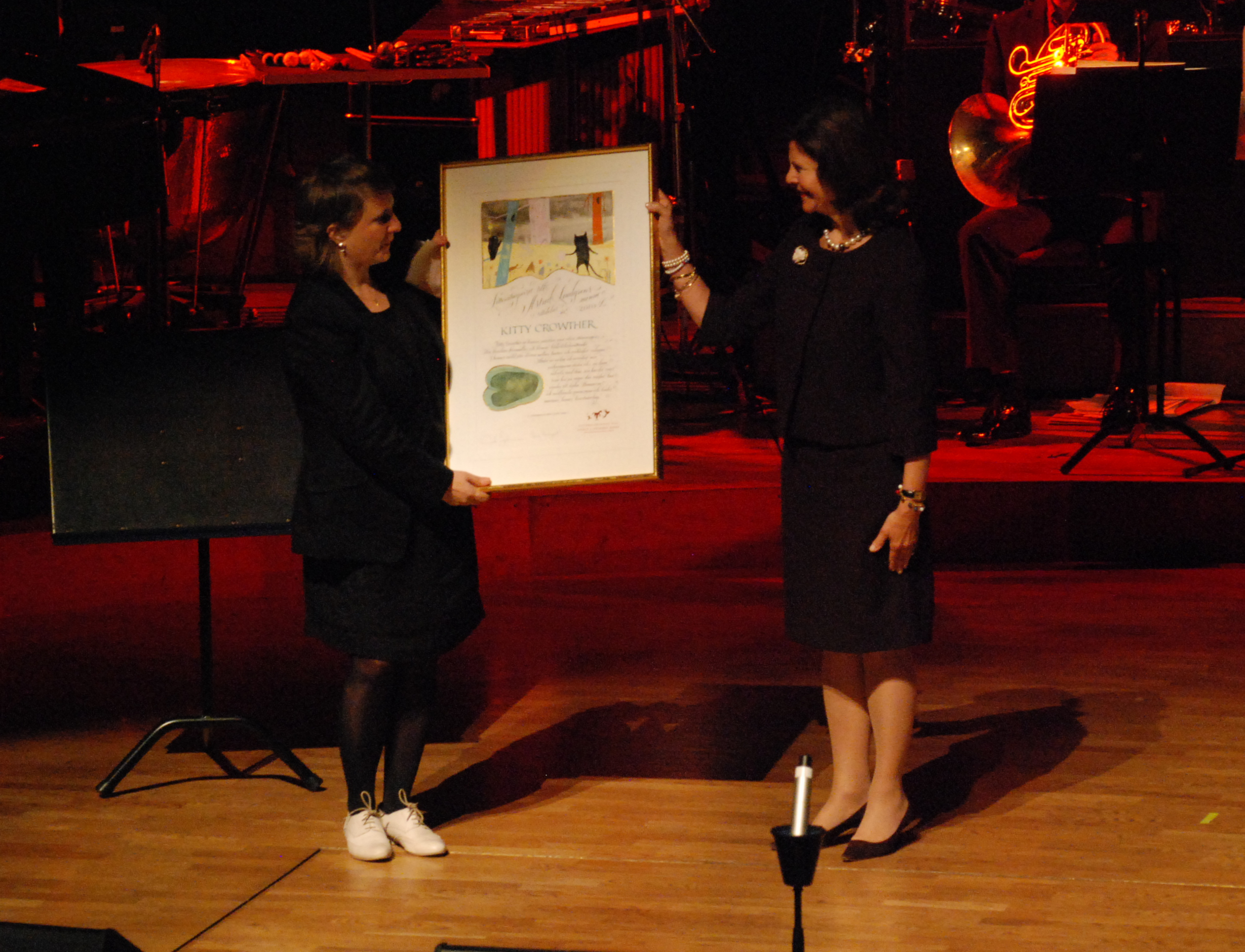 Award ceremony of the Astrid Lindgren Memorial Award 2010: Kitty Crowther gets the prize by Queen Silvia of Sweden